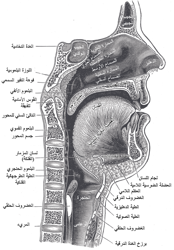 Sagittal section of nose mouth, pharynx, and larynx. Arabic Translation for Sagittal section of nose mouth, pharynx, and larynx.